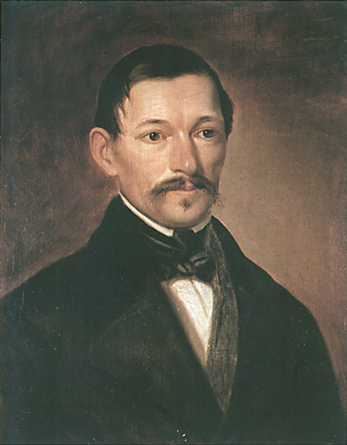 Jovan Sterija Popović, Serbian author, dramaturgist and novelist.